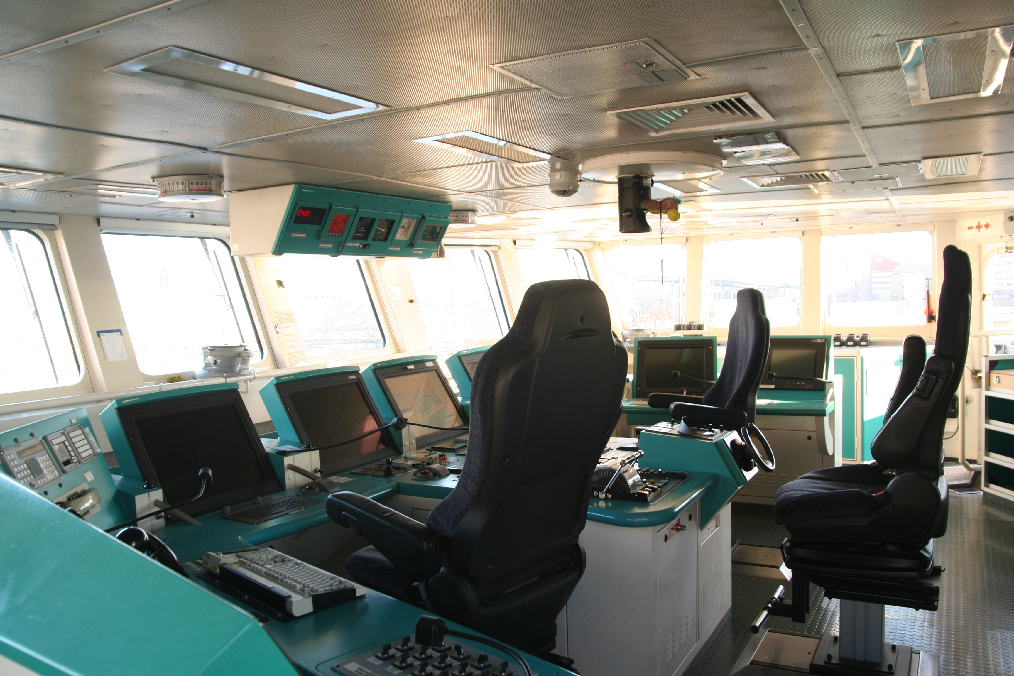 The bridge of F260 Braunschweig.